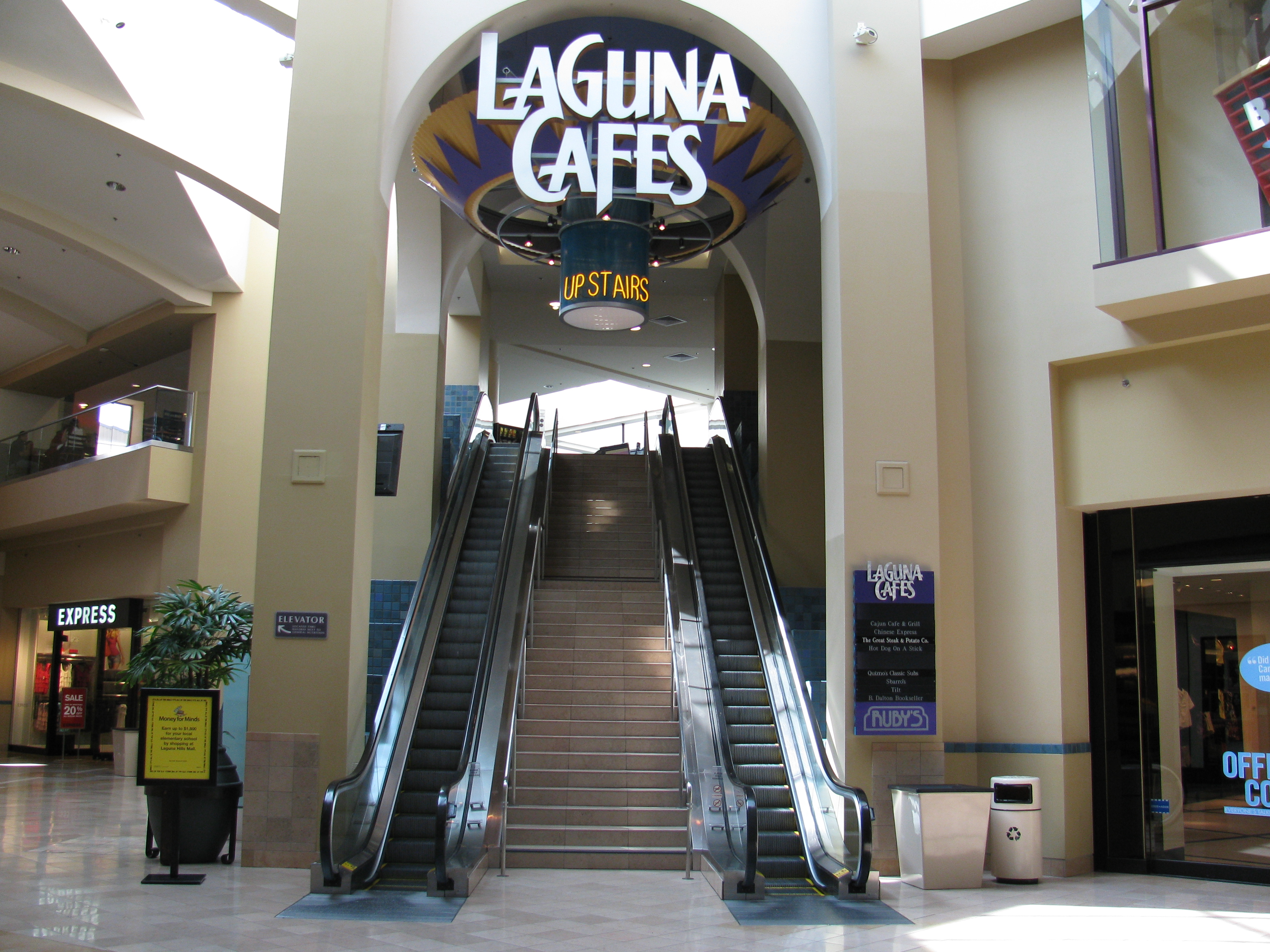 Entrance to the former Laguna Cafes food court at Laguna Hills Mall in Laguna Hills, CA. This food court was permanently shut down in early 2011.